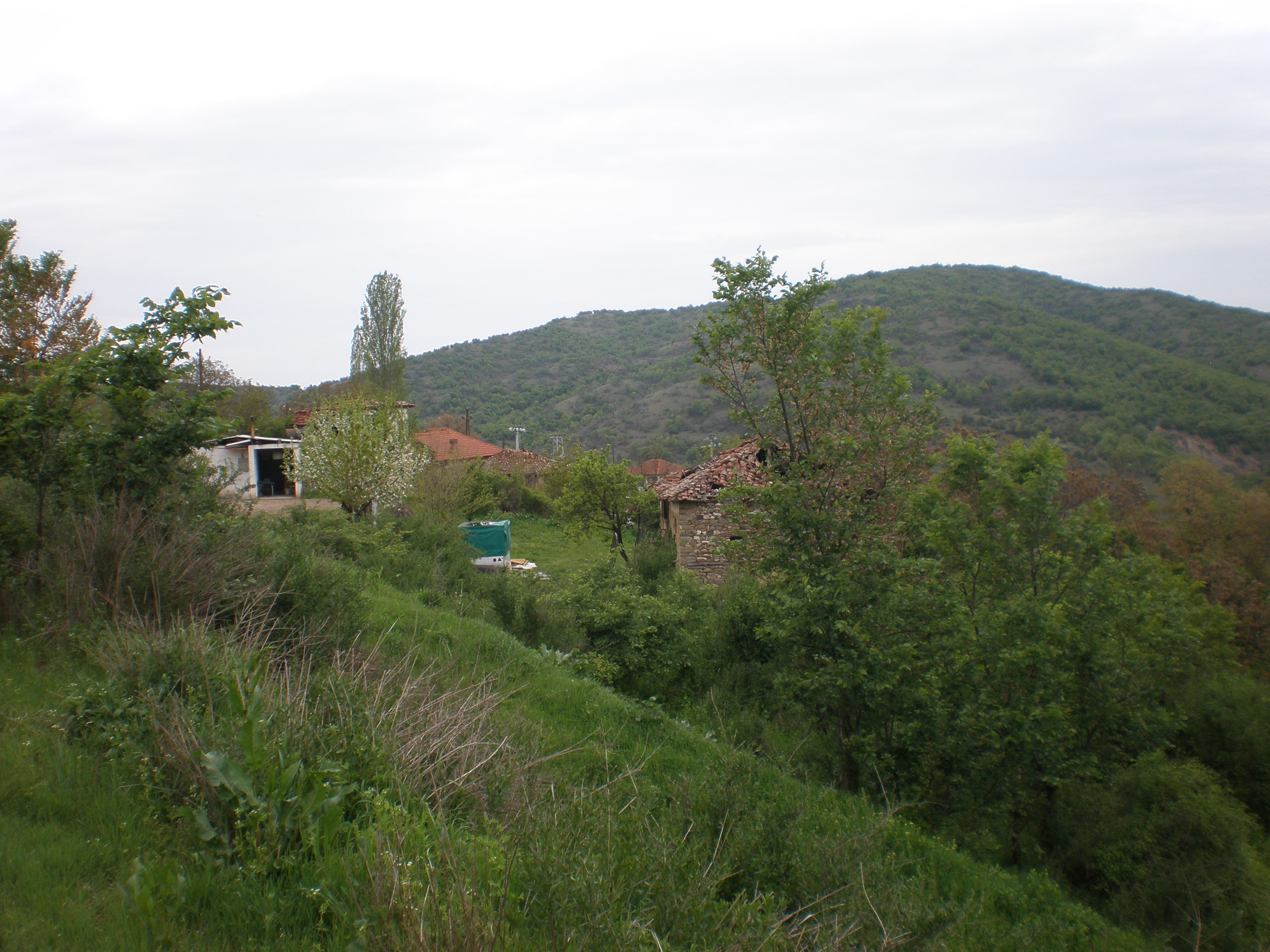 village of Gradmanci, Macedonia